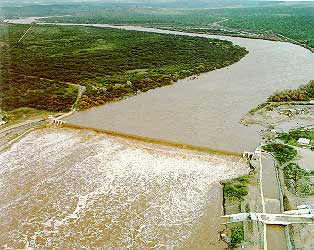 Granite Reef Diversion Dam